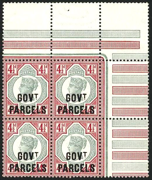 1891-1900 Government Parcels stamps 4 1/2d green and carmine, upper right corner marginal block of four S.G. O71, Spec. L26